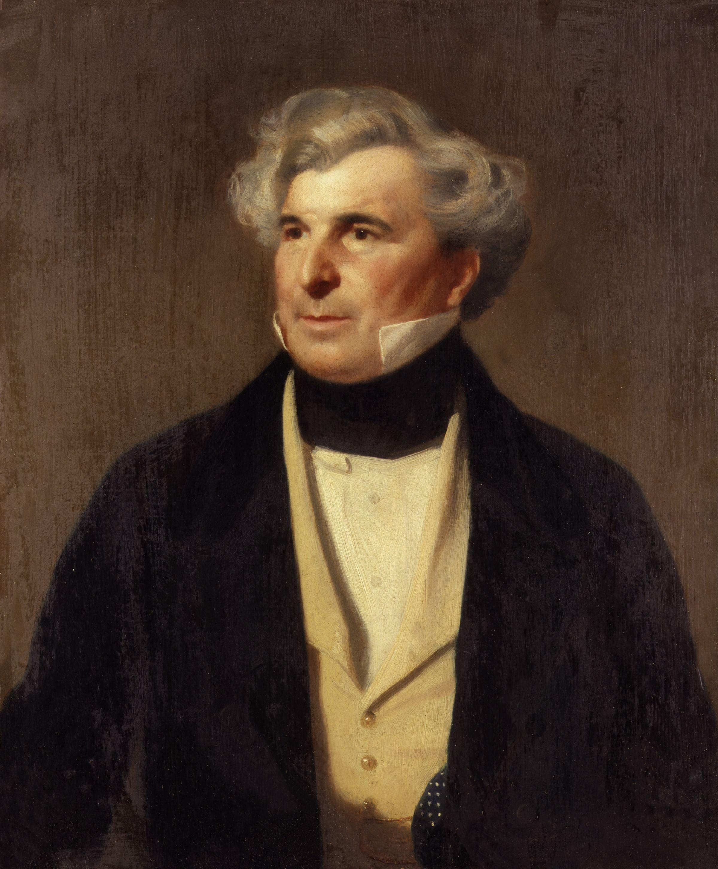 Sir James Clark Ross, by Stephen Pearce (died 1904). All images in this batch have been confirmed as author died before 1939 according to the official death date listed by the NPG.